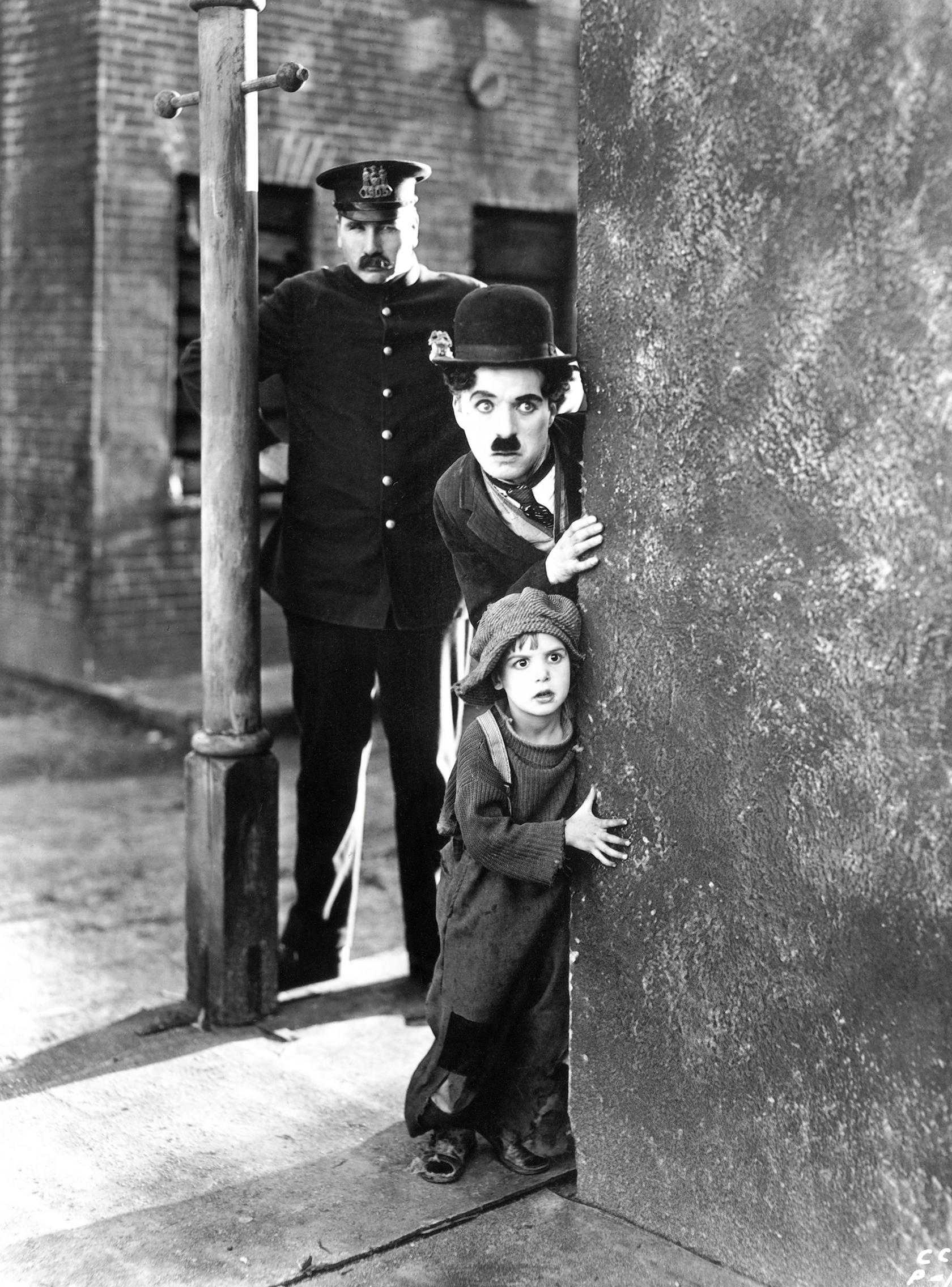 Publicity photo from Charlie Chaplin's The Kid.Shown (from front to back): Jackie Coogan as "The Child". Charlie Chaplin as "A Tramp". Tom Wilson as the cop.